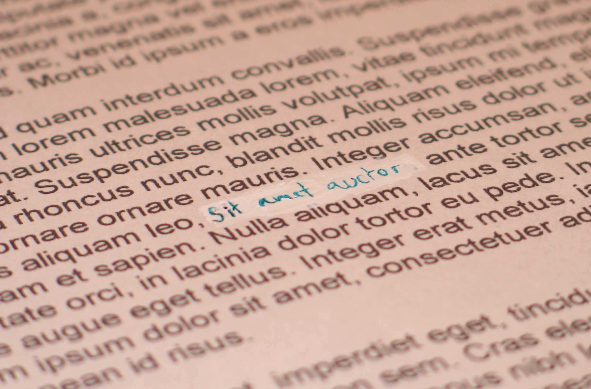 This image is an example of how correction fluid (e.g. Tipp-Ex) is used on printed documents. The text used is Lorem ipsum.